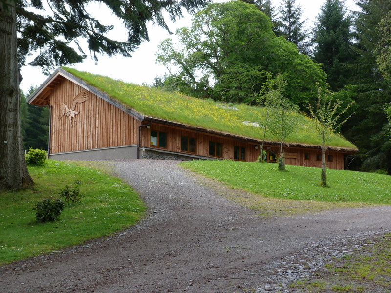 "The Magnus House" at Aigas Field Centre. Opened in 2009, this is a "green" design building used as a lecture and exhibition hall for the centre. It is named for the late Magnus Magnusson. Near to Aigas, Highland council area, Scotland.